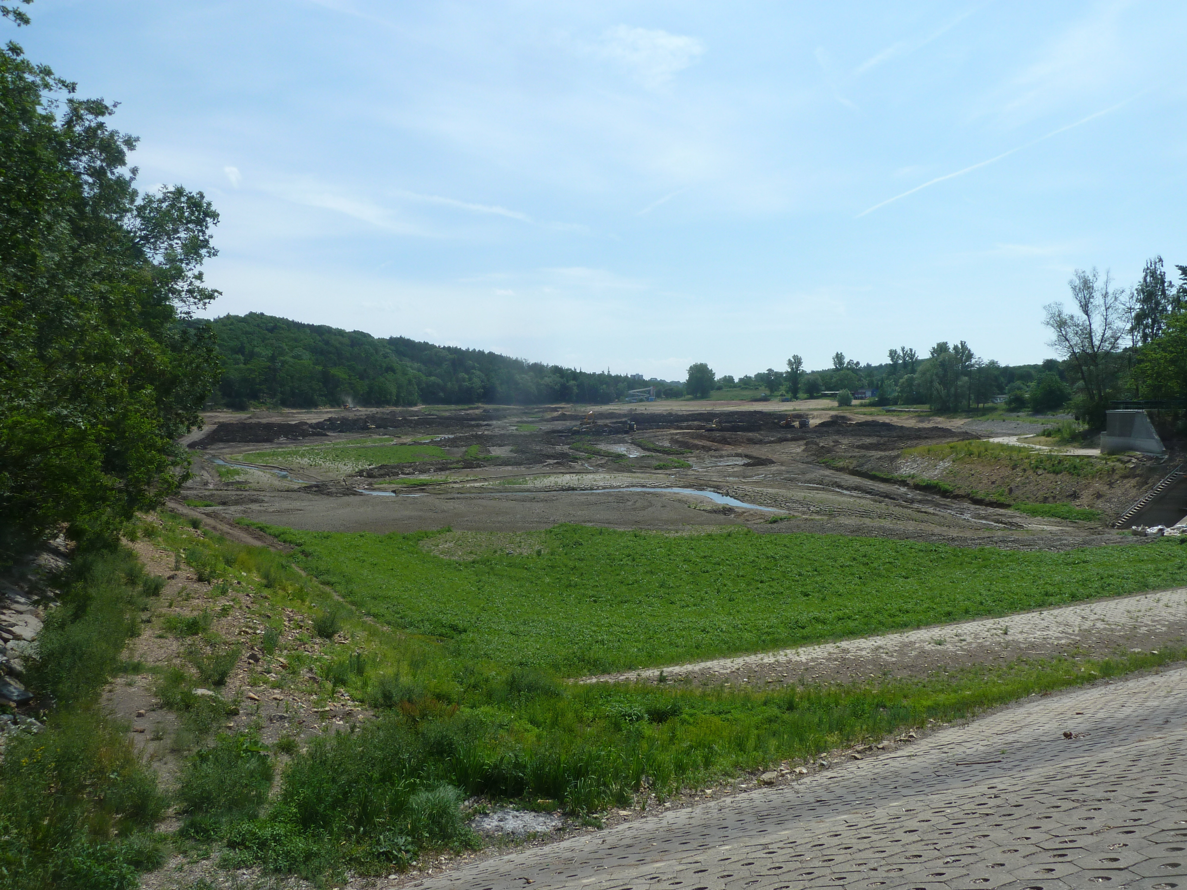 Removing mud from the Hostivař reservoir, view from the dam.